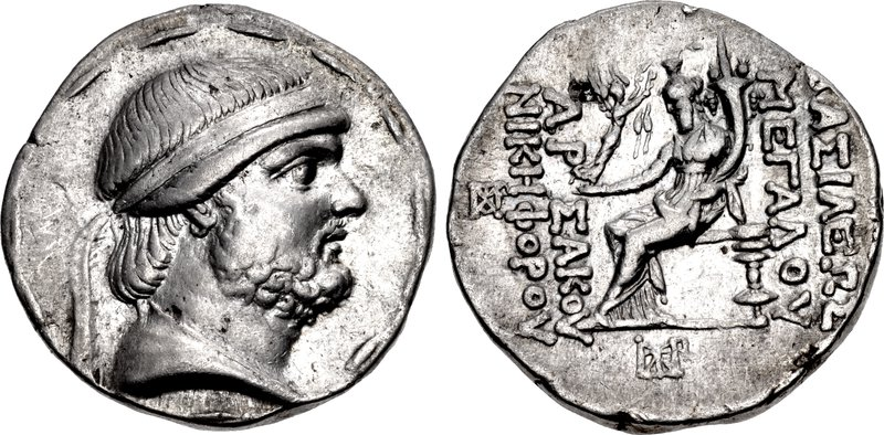 Coin of Phraates II, Seleucia mint.